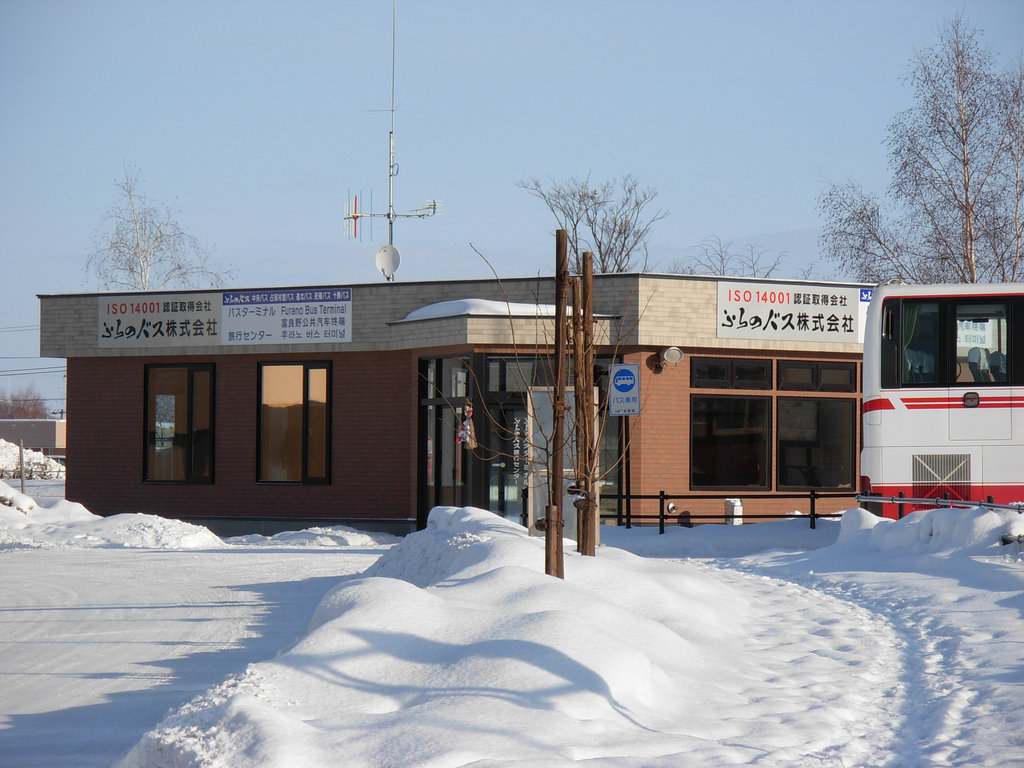 Building of Furano sta. bus terminal office(Furano) ふらの駅前バスターミナルの案内所建物